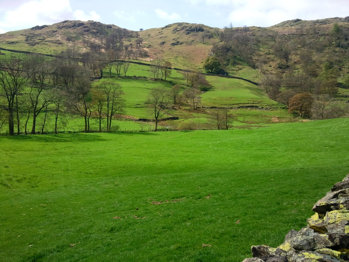 Lake district national park